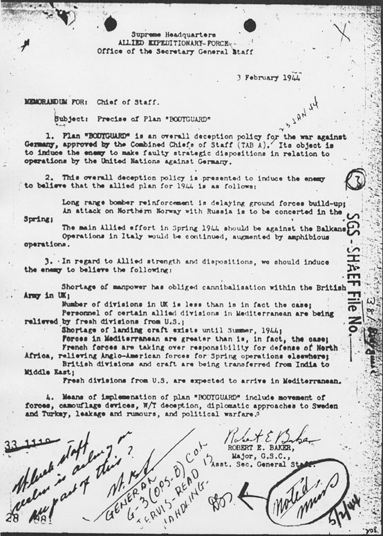 Memorandum relating to Operation Bodyguard prepared for SHAEF in 1944